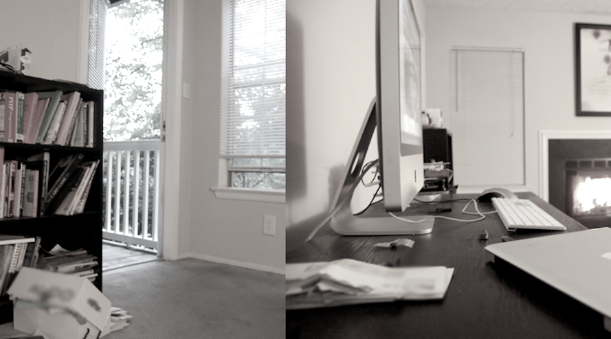 Mobile studio of Olufeko's outside Washington D.C in Silver Spring Maryland